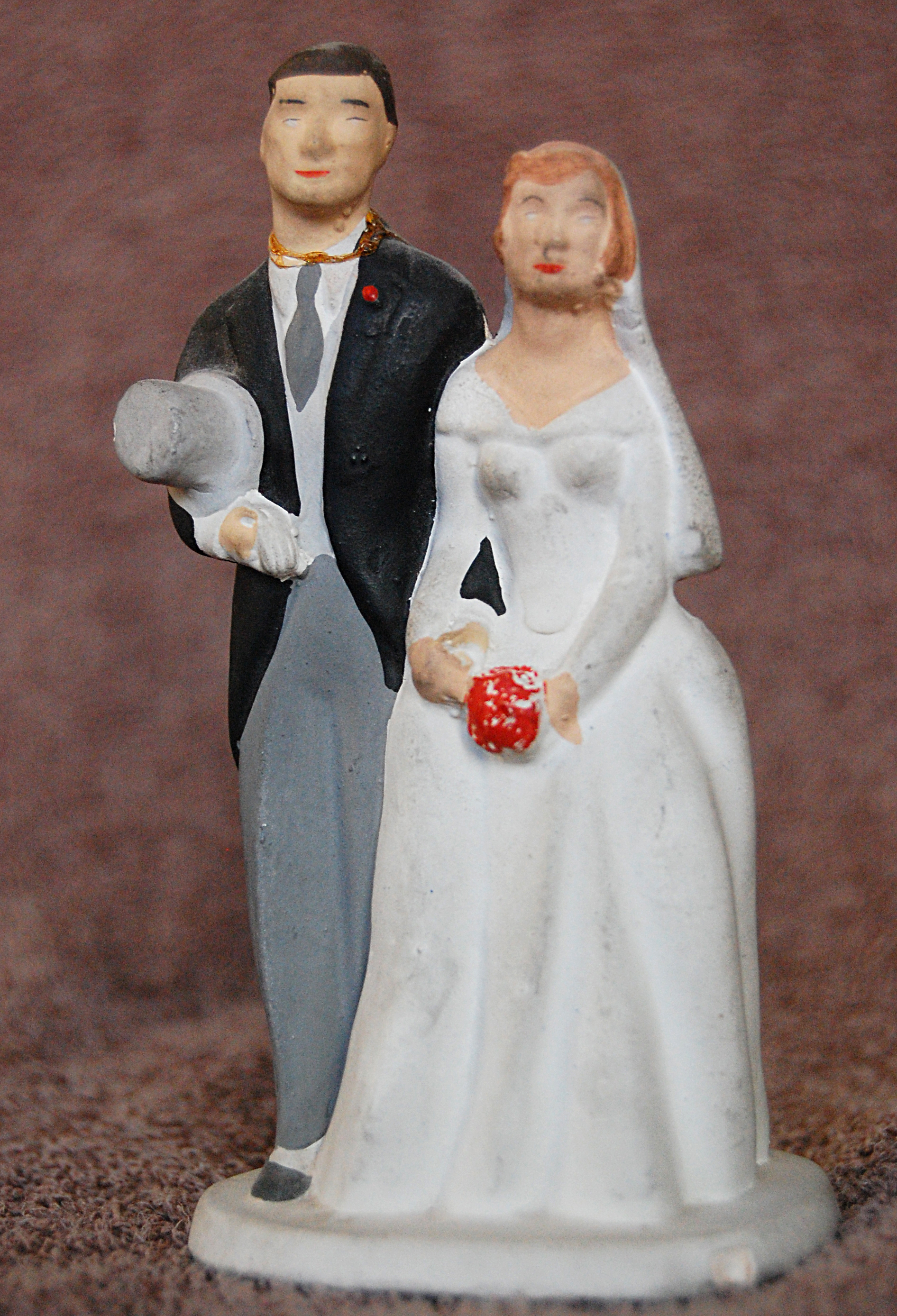 Ceramic ornament used on the top of a wedding cake in Birmingham, England in August 1959 (my parents'!). 107mm tall.